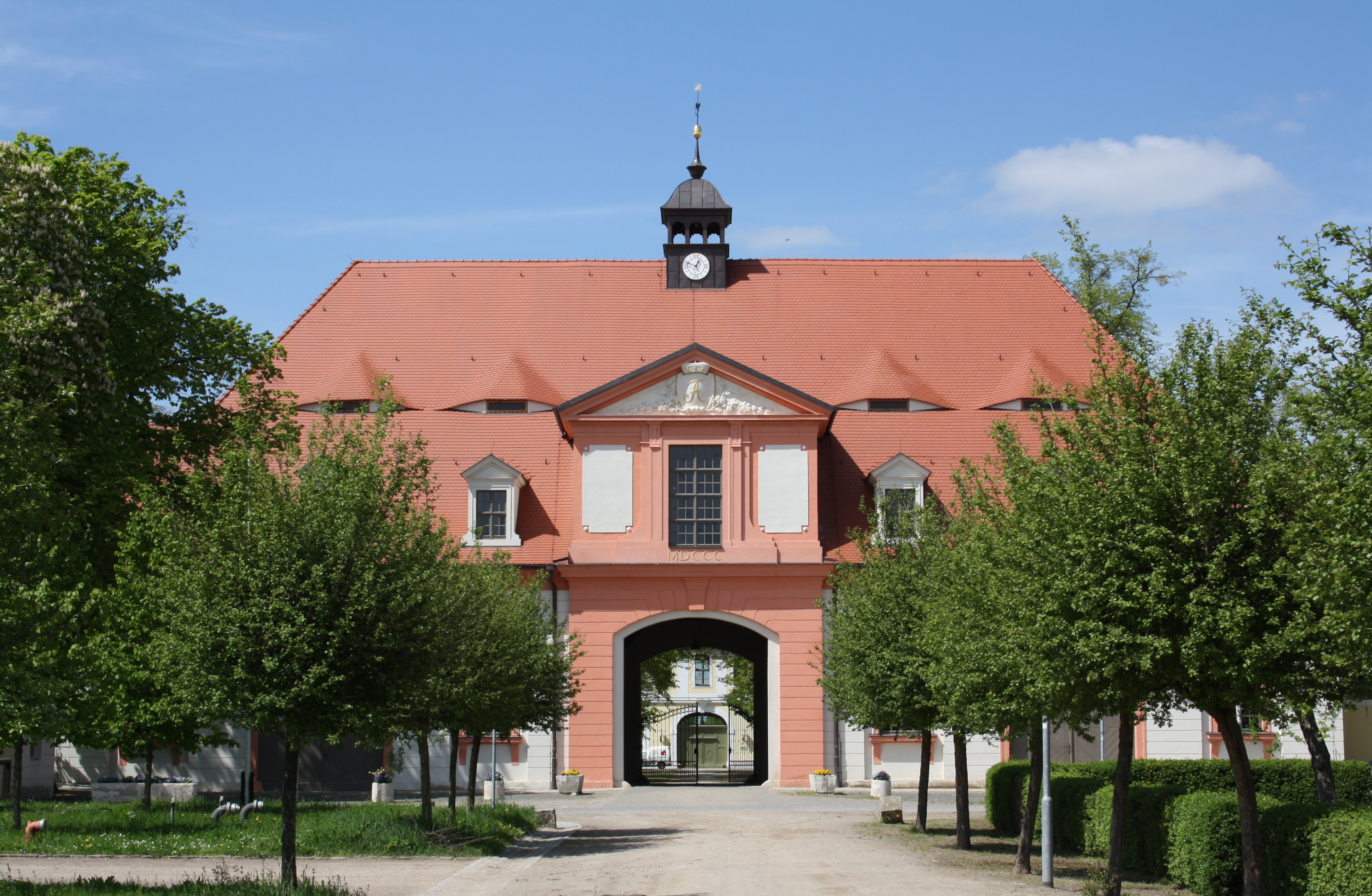 Graditz Saxony Torgau